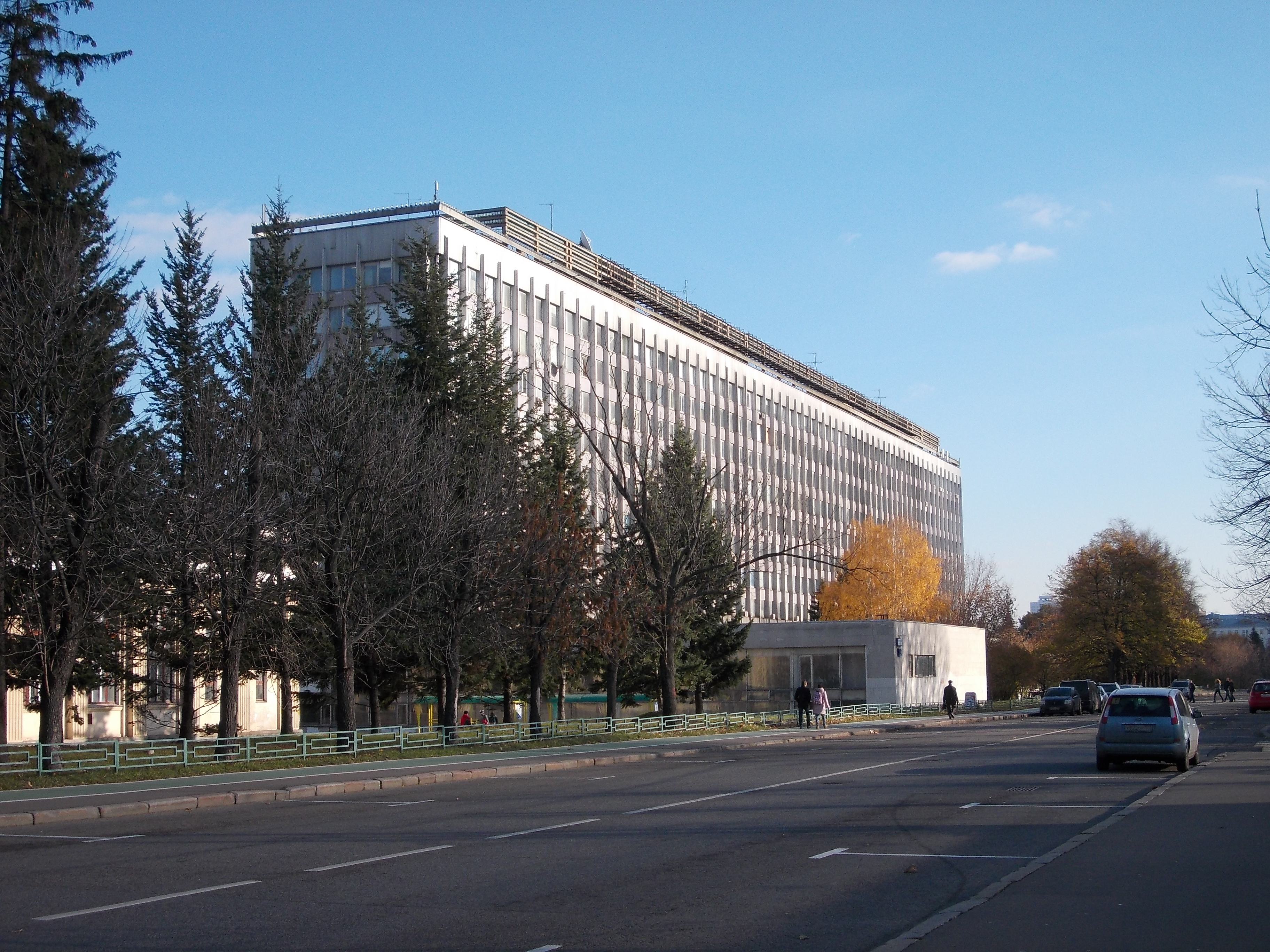 1st humanitarian building of Moscow State University.